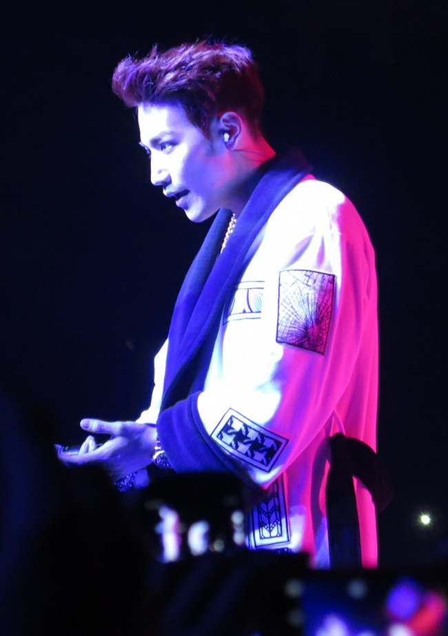 2PM Go Crazy World Tour, Prudential Centre, Newark, New Jersey, U.S.A.